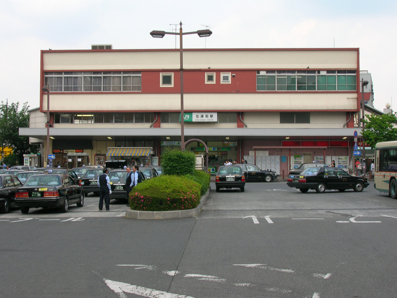 West Exit of Kita-Urawa Station